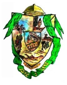 Juchipila